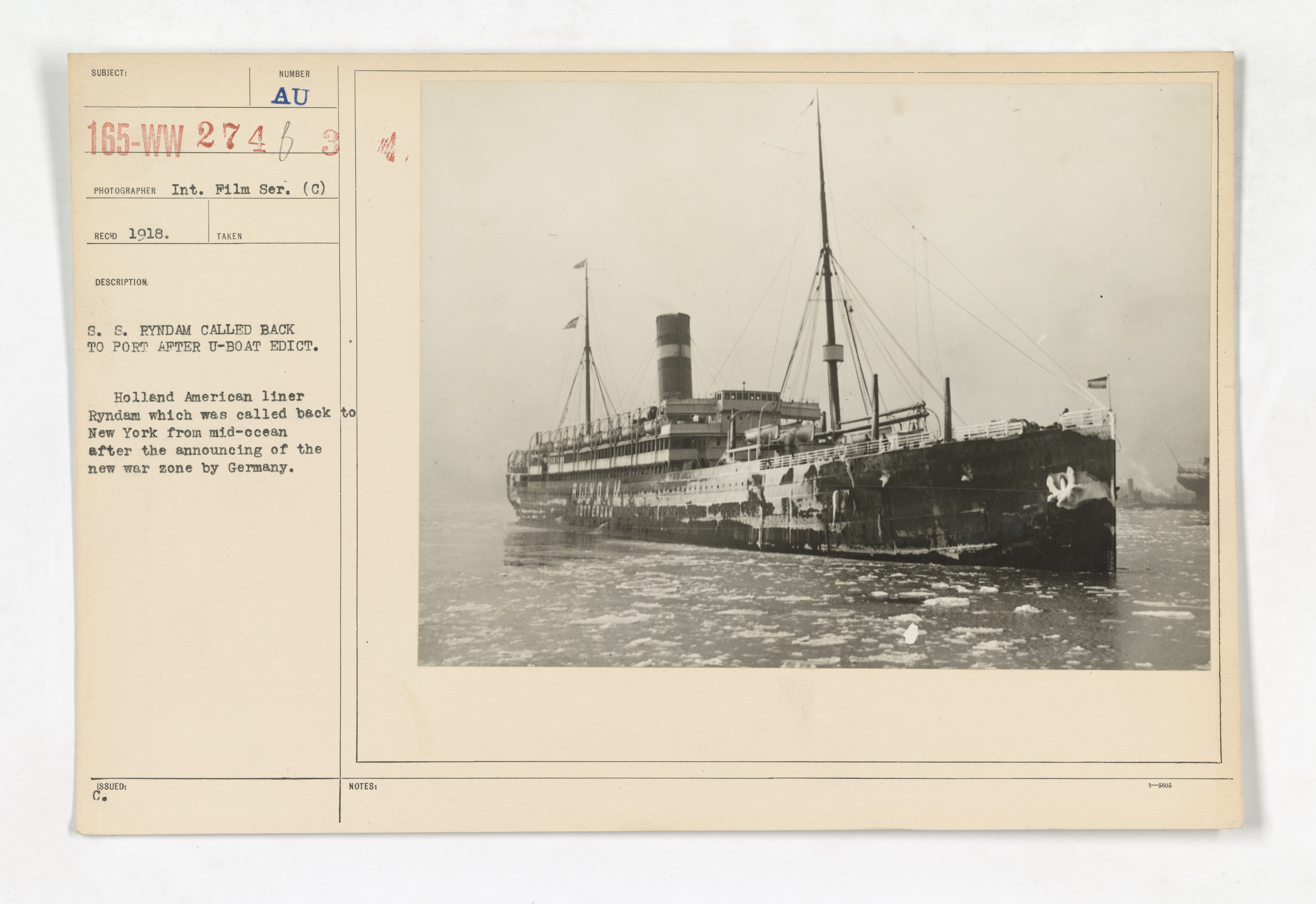 Scope and content: Photographer: International Film Service